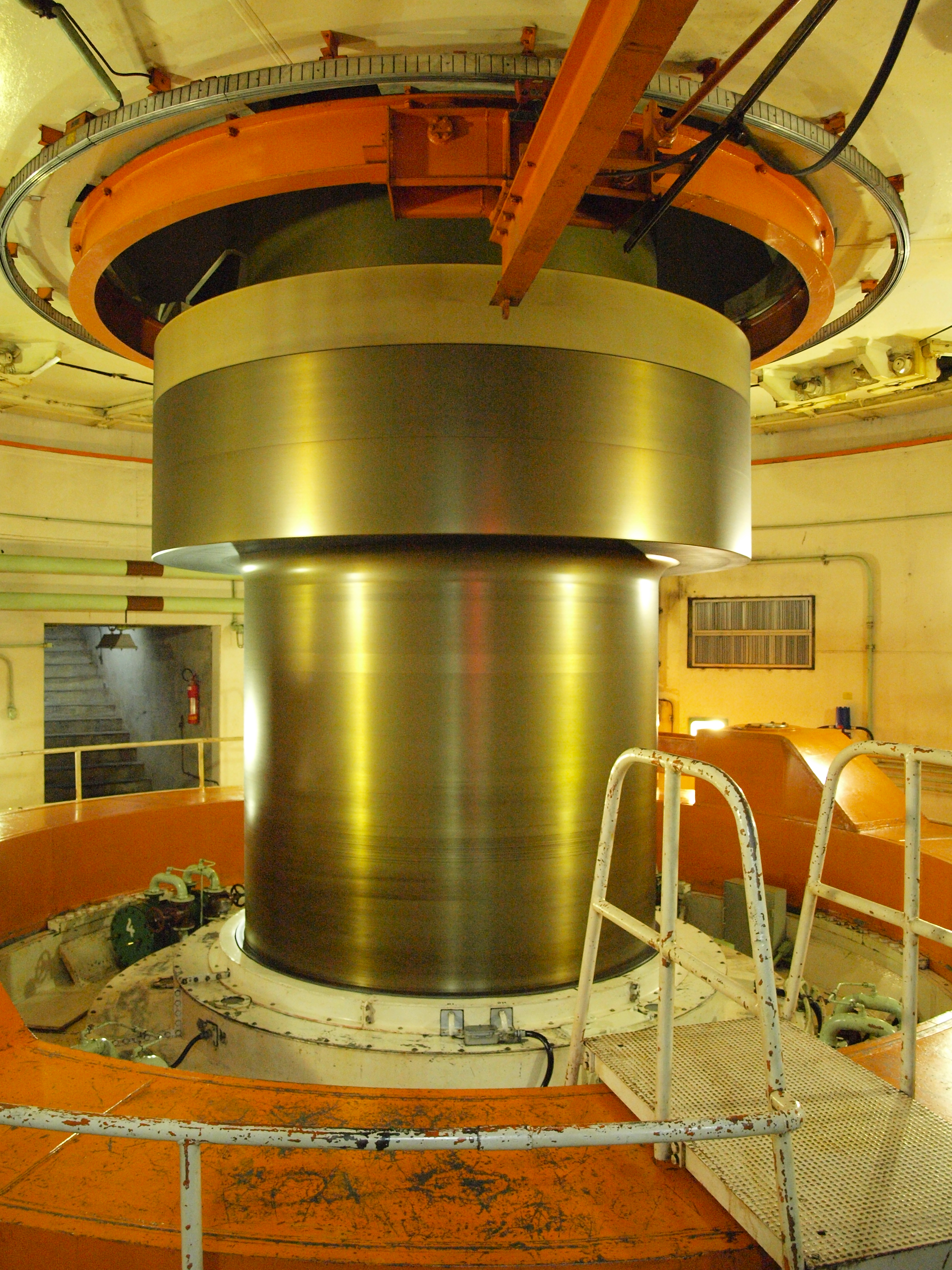 Itaipu Binational Hydroelectric Plant